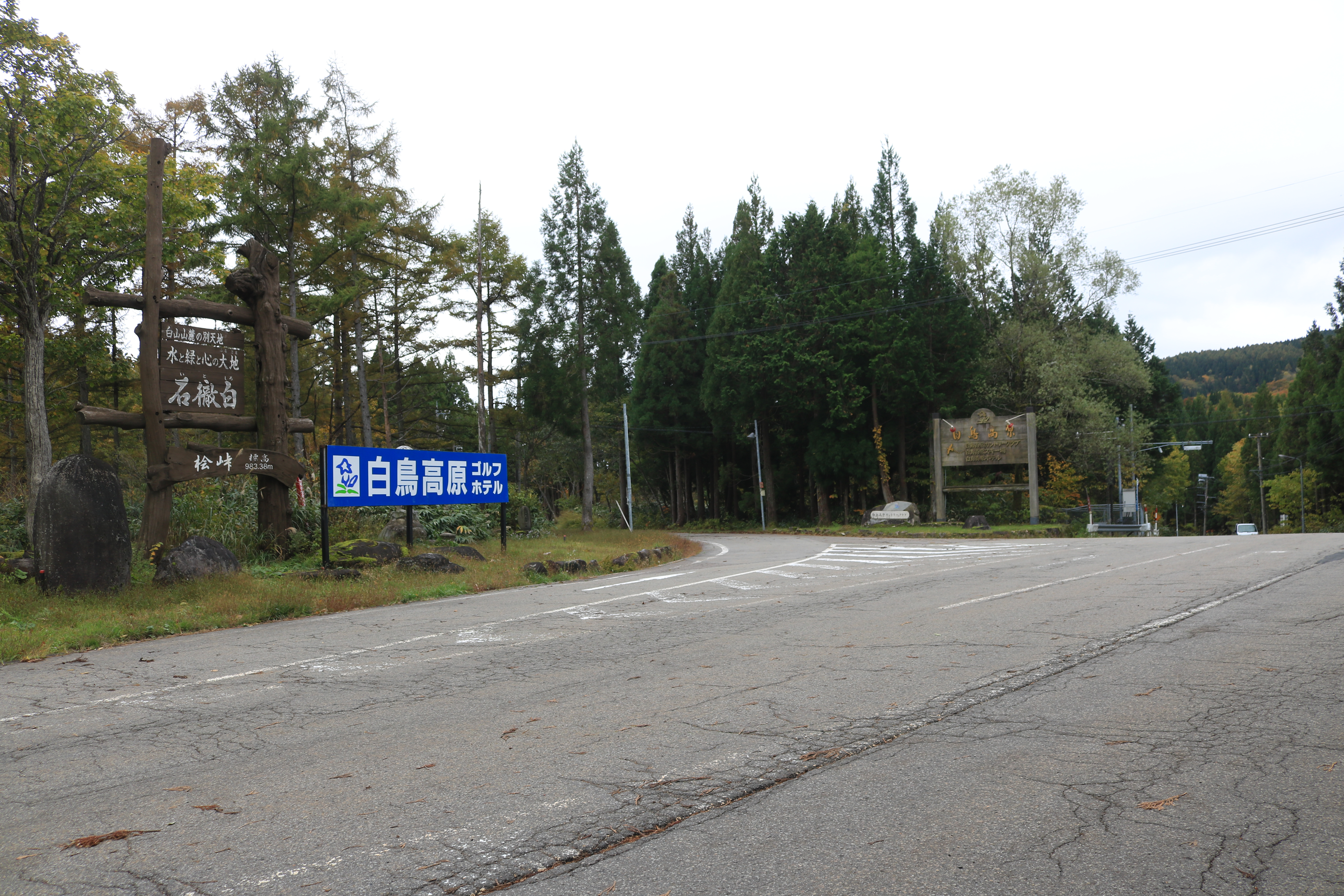 Hinoki Ridge on Gifu Prefectural Road Route 314 in Itoshiro, Shirotorichō, Gujō, Gifu Prefecture, Japan.